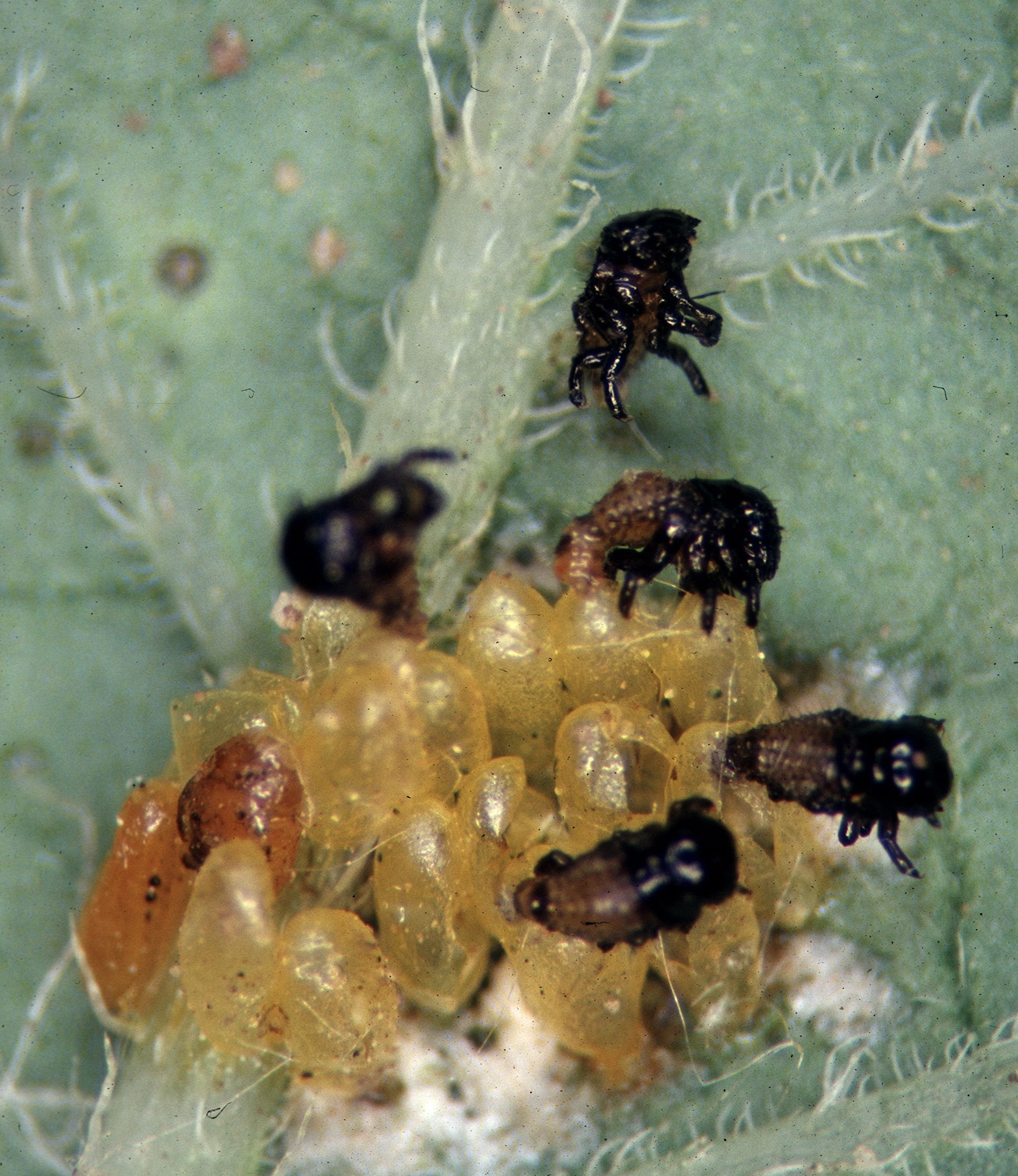 Egg mass of Colorado Potato Beetle hatching on Potatoéclosion d'œufs de doryphore (Leptinotarsa decemlineata, Chrysomelidae)